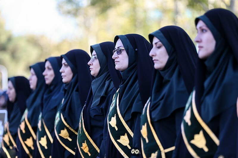 Law enforcement morning ceremony